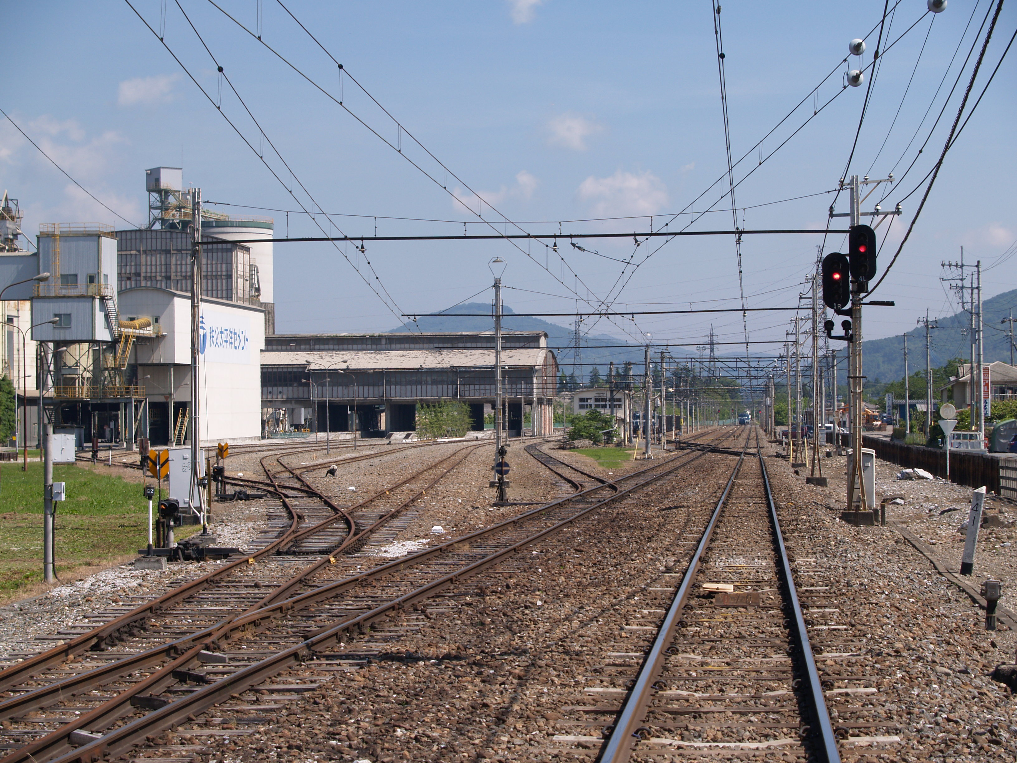 Bushu-Haraya Freight Terminal on the Chichibu Main Line